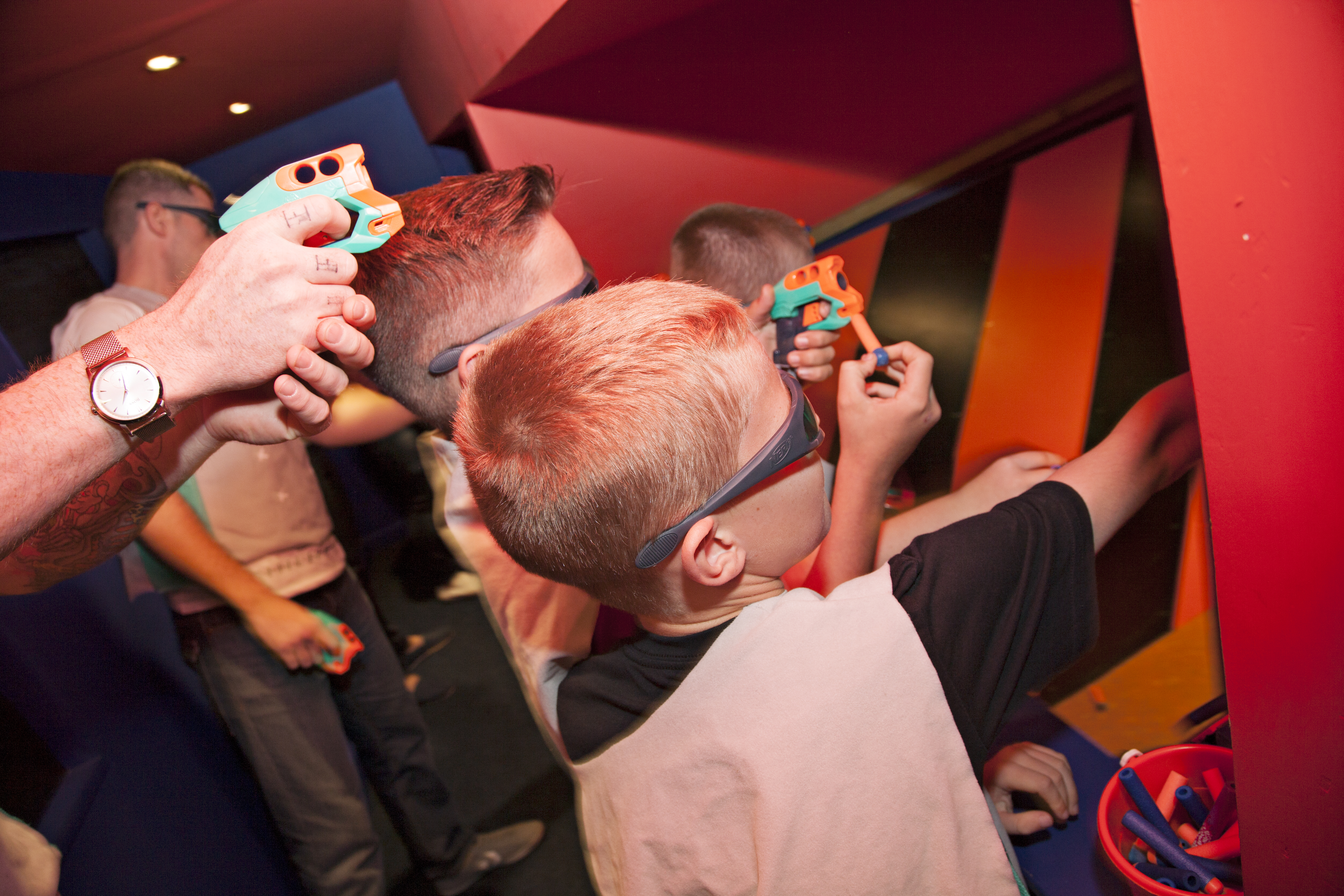 NERF Zone, Milton Keynes Target Range